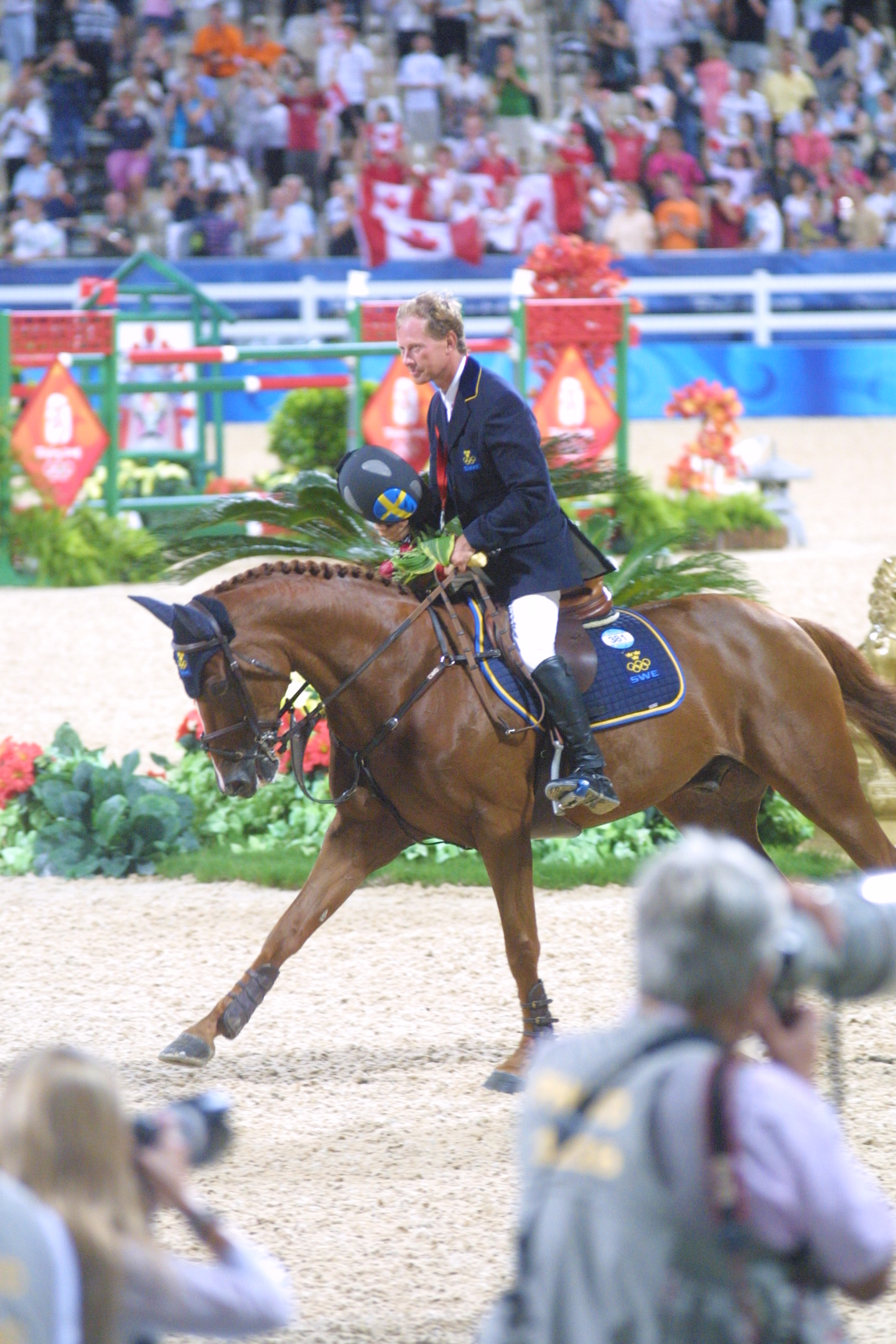 Swedish show jumper Rolf-Göran Bengtsson and Ninja La Silla at the show jumping competition of 2008 Olympic Summer Games at the Hong Kong Sports Institute. Bengtsson would end up with a silver medal in the individual competition.